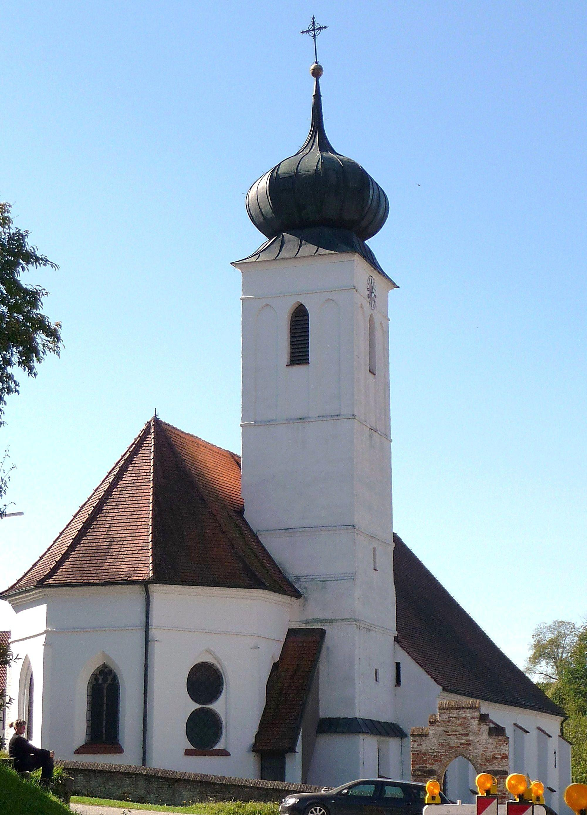 Church of the Assumption in Jenkofen, Germany.